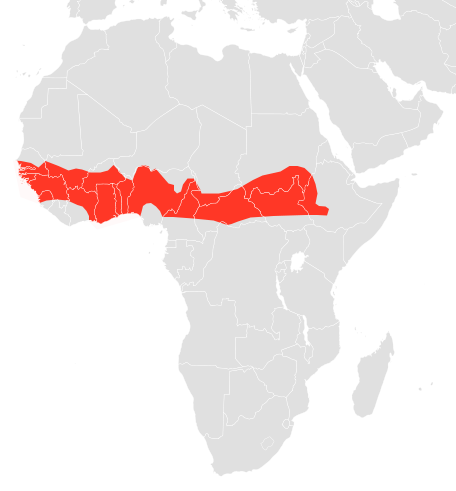 Distribution of Epomophorus gambianus